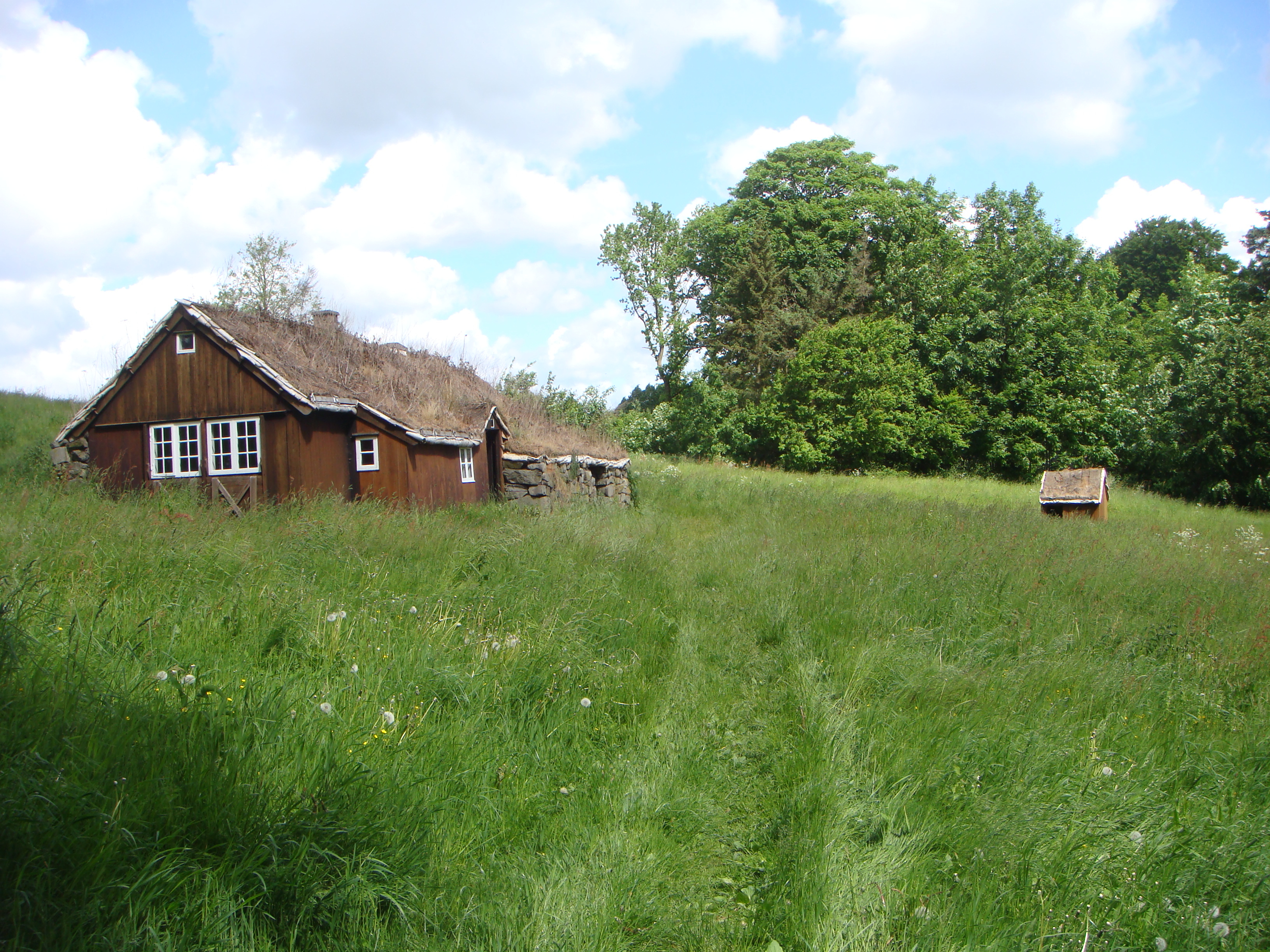 A house from Mul on Bordø, the Faeroe Islands and a splash mill from Sand on Sandø in the background at the Open-Air Museum.